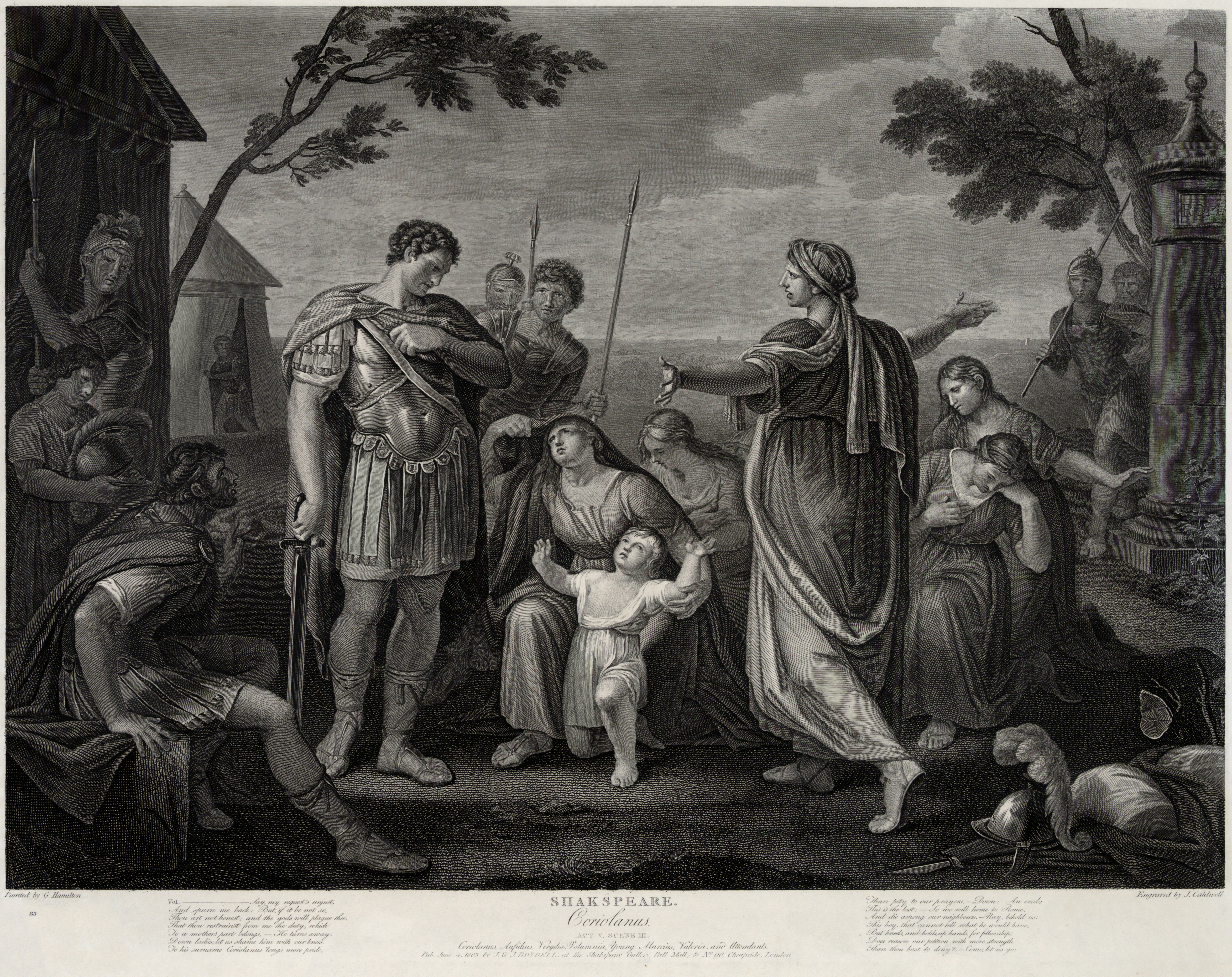 Act V Scene 3 of Shakespeare's Coriolanus: VOLUMNIA Say my request's unjust, And spurn me back: but if it be not so, Thou art not honest; and the gods will plague thee, That thou restrain'st from me the duty which To a mother's part belongs.—He turns away: Down, ladies: let us shame him with our knees. To his surname Coriolanus 'longs more pride Than pity to our prayers. Down: an end; This is the last.—So we will home to Rome, And die among our neighbours.—Nay, behold's: This boy, that cannot tell what he would have But kneels and holds up hands for fellowship, Does reason our petition with more strength Than thou hast to deny't.—Come, let us go